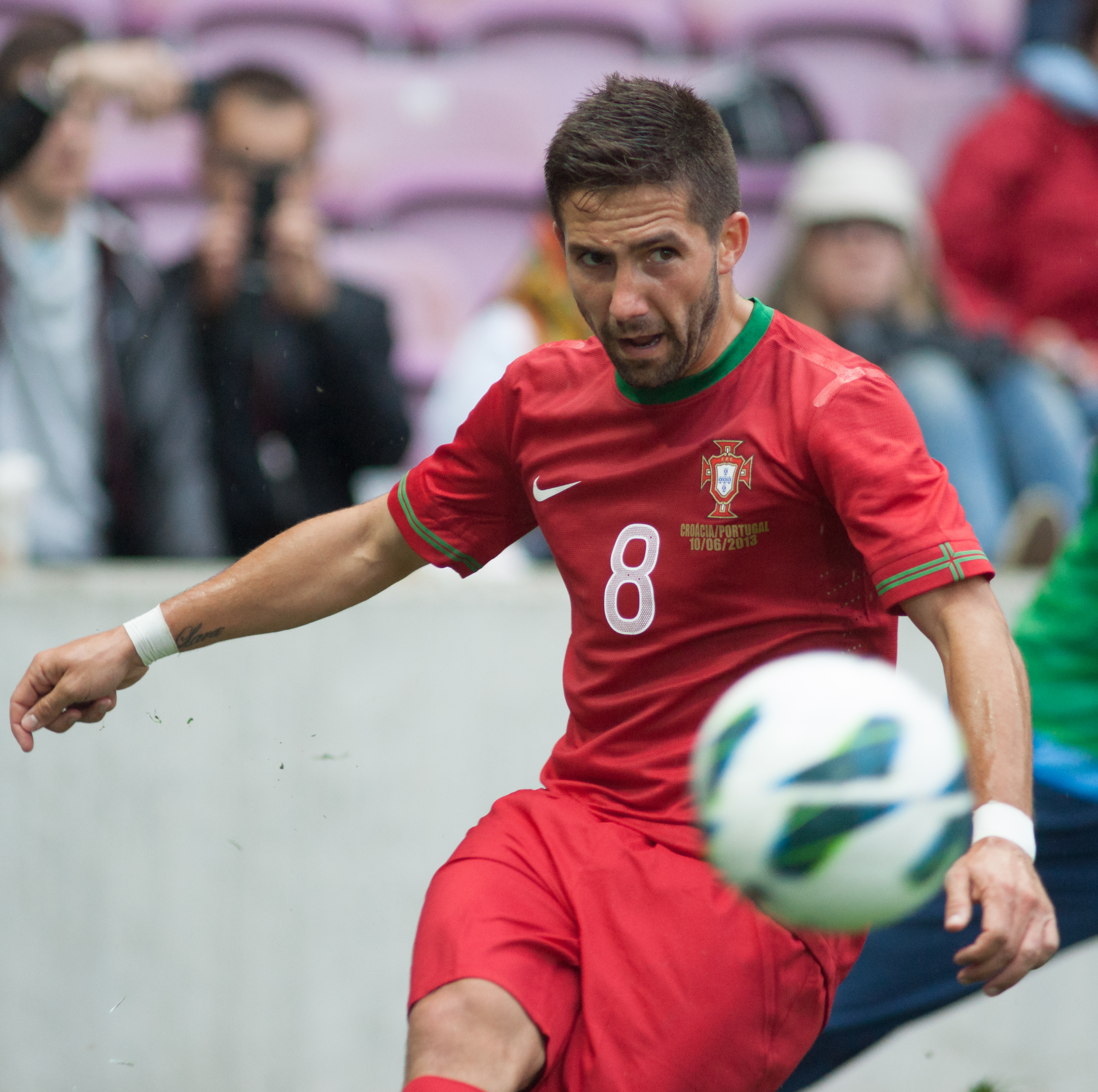 Croatia vs. Portugal, 10th June 2013